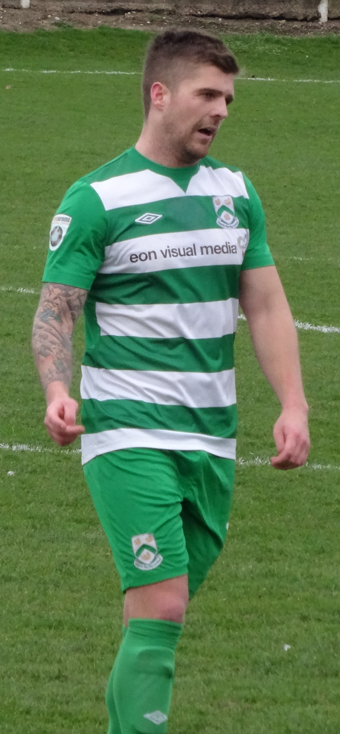 Ryan Kendall playing for North Ferriby United against Solihull Moors at Grange Lane, North Ferriby on 18 March 2017